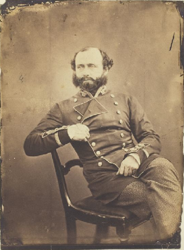 Sir Charles Ash Windham, Crimean War